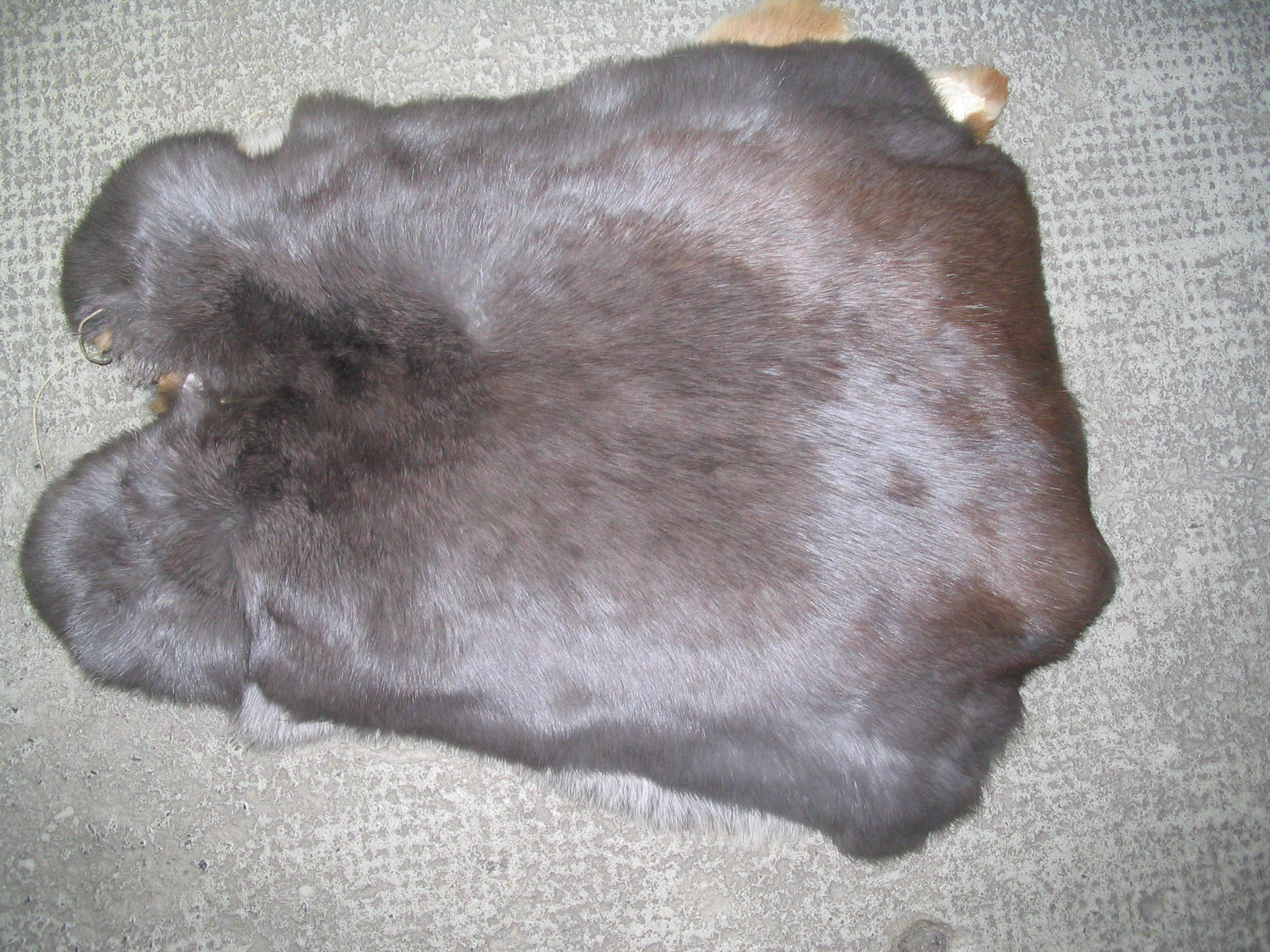 Domestic rabbit fur skins